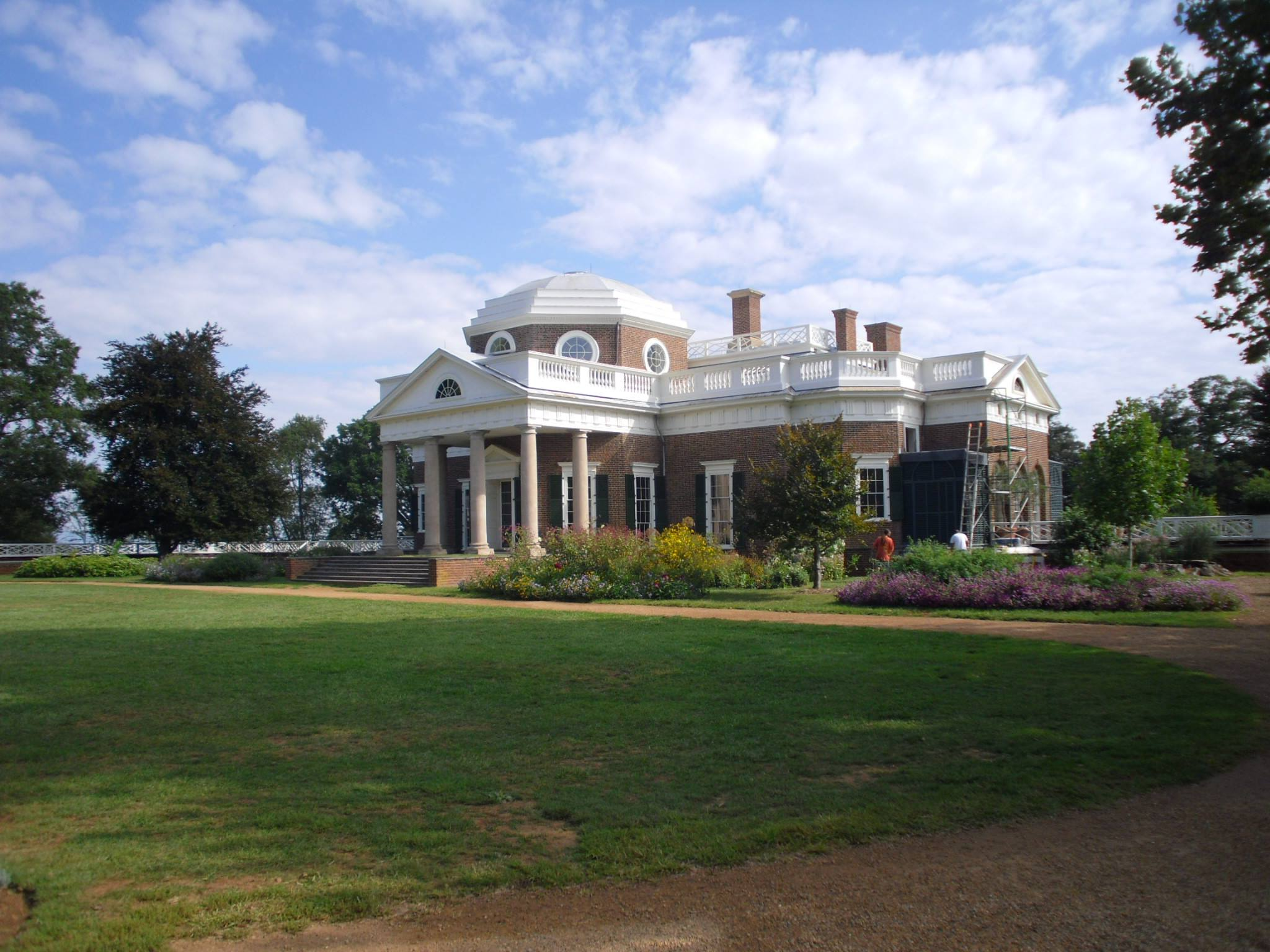 Monticello, 2 miles (3.2 km) south of Charlottesville on VA 53 Charlottesville